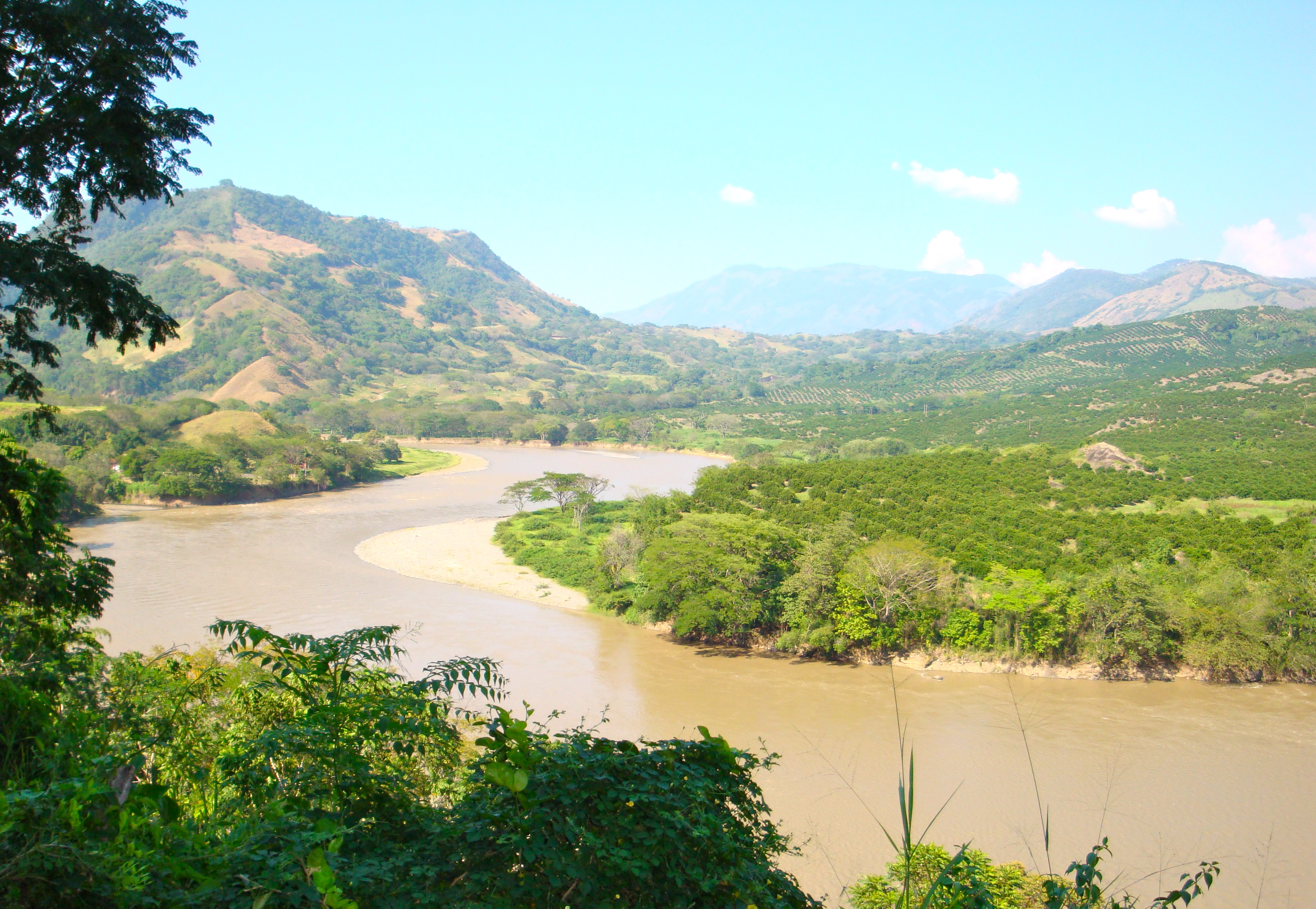 Rio Cauca. Orange crops along the Cauca River in Tarso, Antioquia, Colombia.